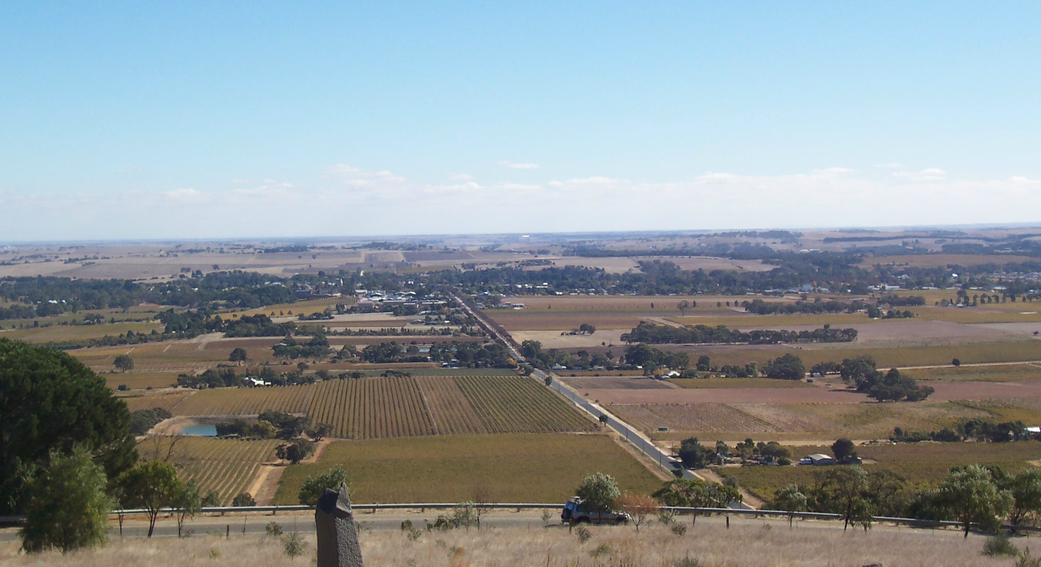 Tanunda in the Barossa Valley, viewed from Mengler's Hill. Vineyards in Autumn Source: Scott Davis - photographer